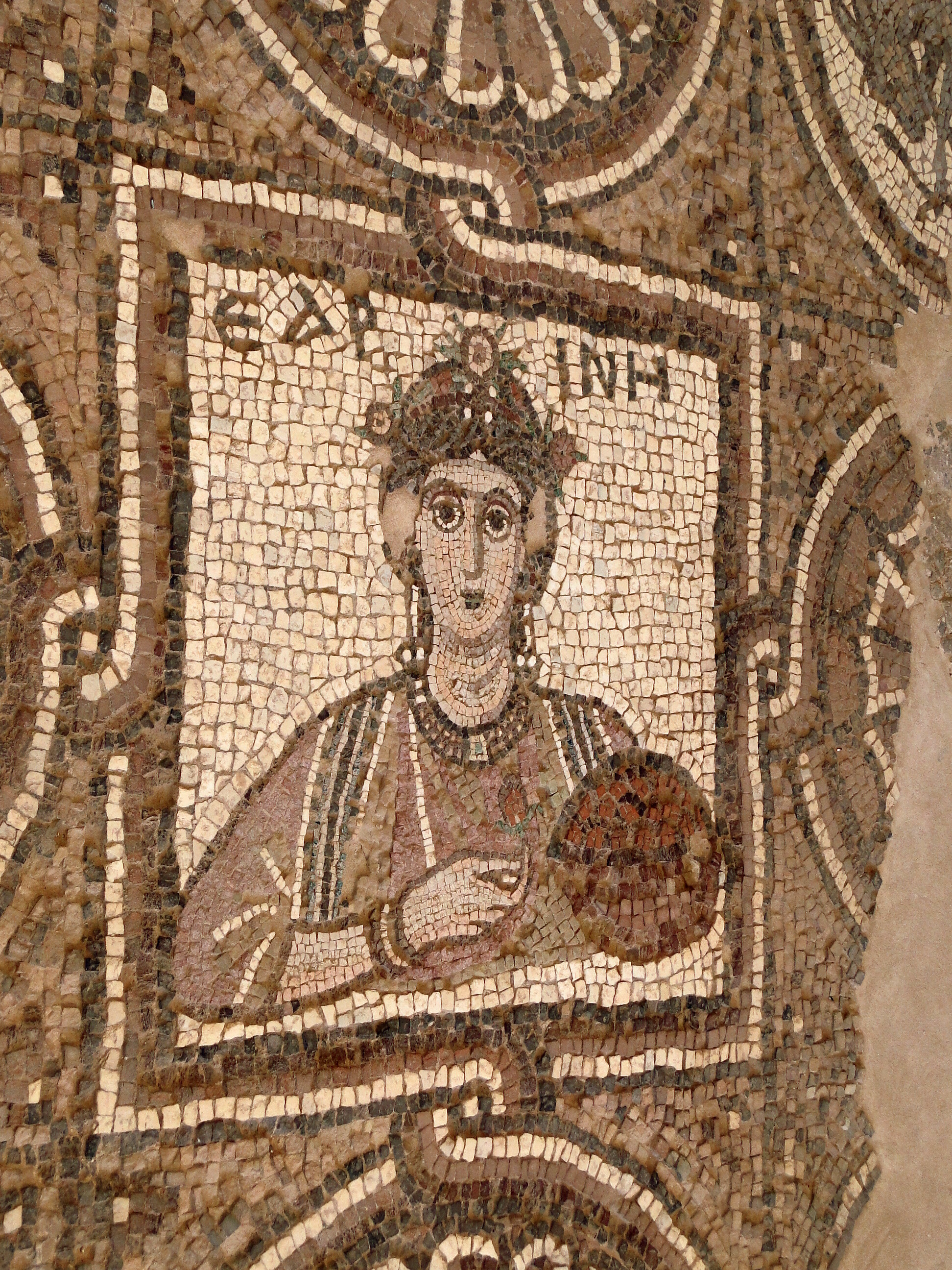 Mosaic of a woman on the Southern Aisle floor of the Byzantine Church of Petra, Jordan